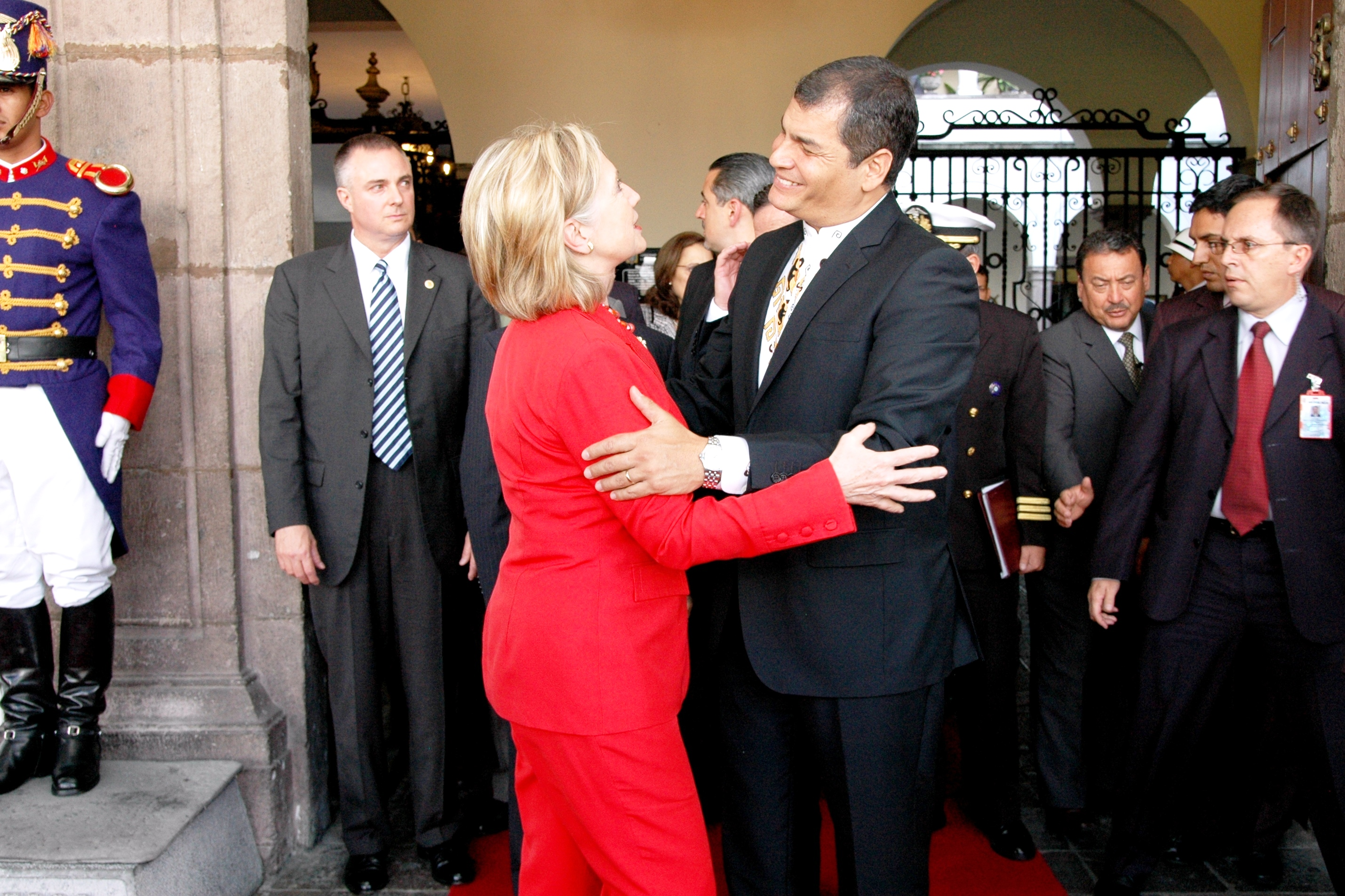 Ecuadorian President Rafael Correa and U.S. Secretary of State Hillary Rodham Clinton say goodbye at the entrance to Carondelet Palace in Quito, Ecuador, on June 8, 2010. [State Department photo/ Public Domain]